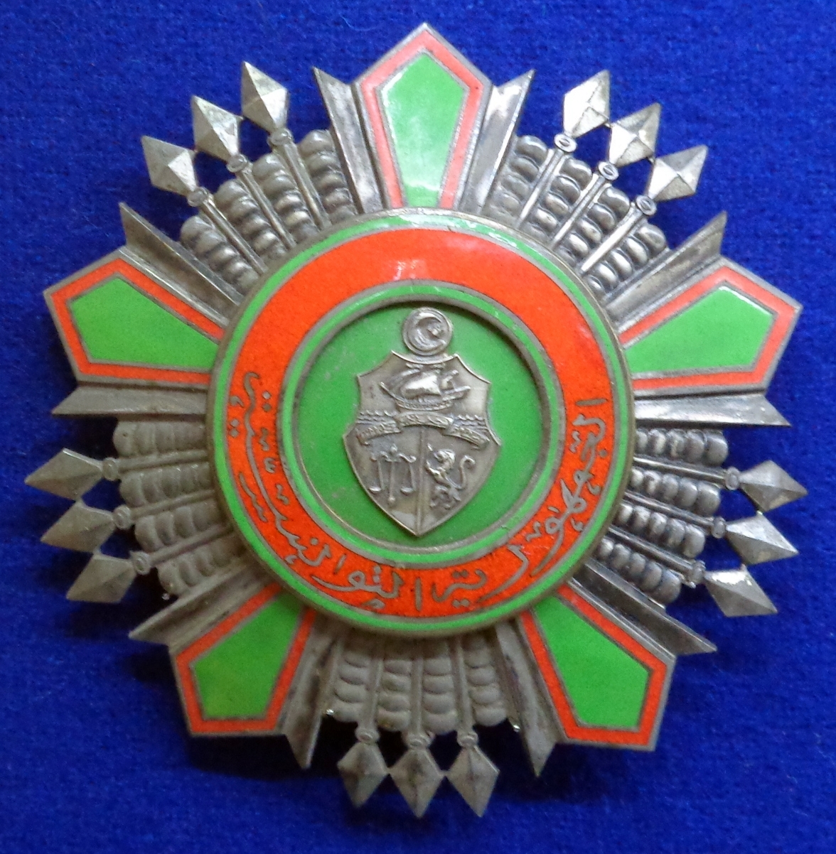 Order of the Republic, star of Grand Cross, after 1967. Tunisia. The exhibition of the Tallinn Museum of Orders of Knighthood, Estonia.